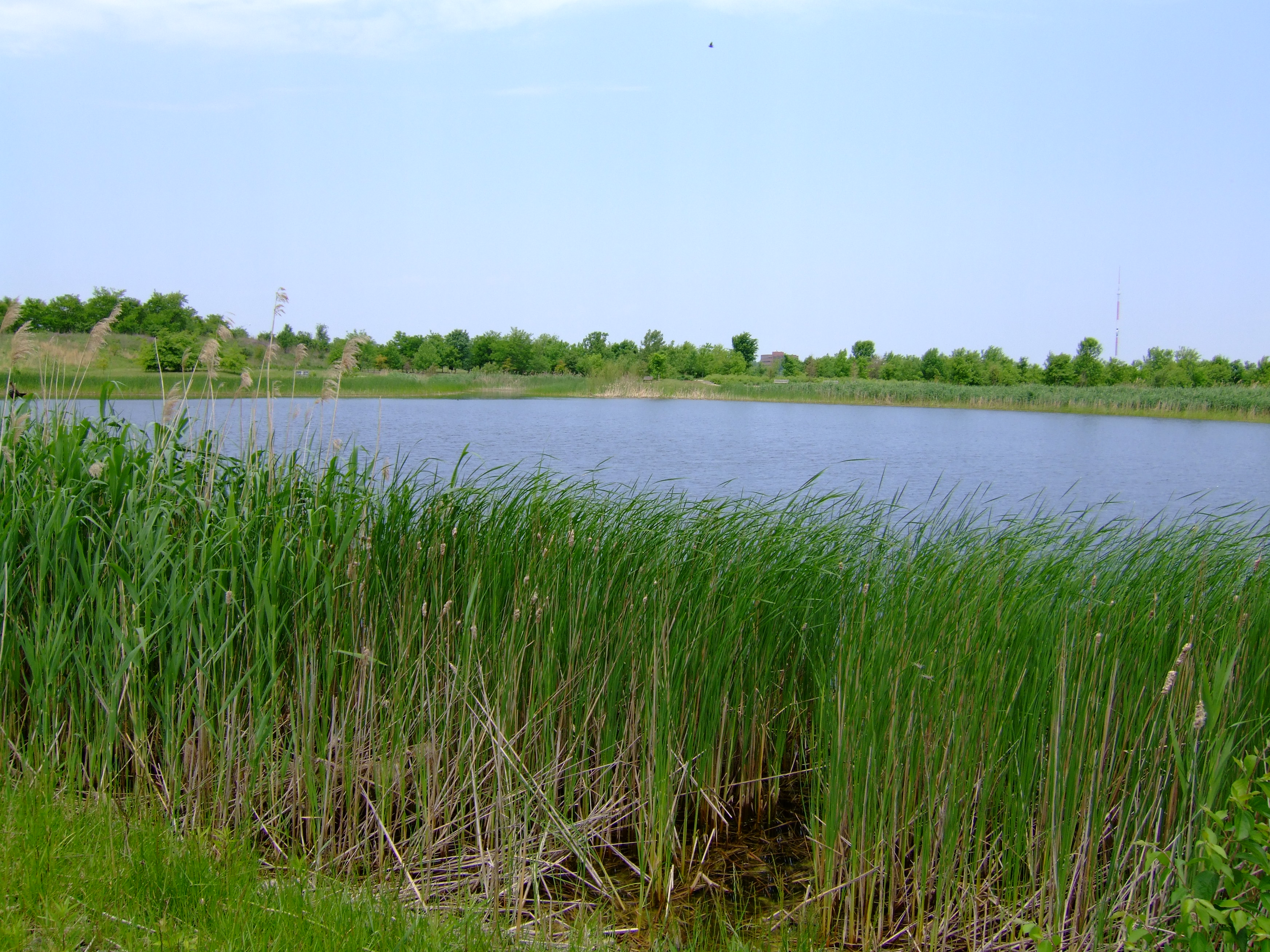 Chadwick Arboretum on the campus of The Ohio State University. Self made photo.